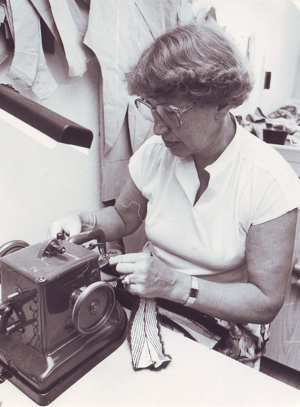 Furrier's, Pelze Hugendick in Schwelm/Westfalia, Germany Let out a mink fur-skin